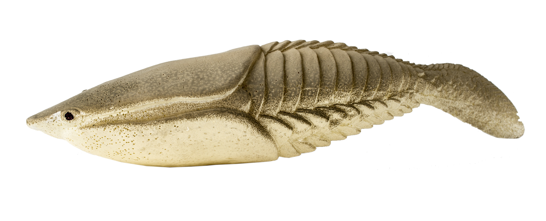 Reconstruction. 1:1 scale